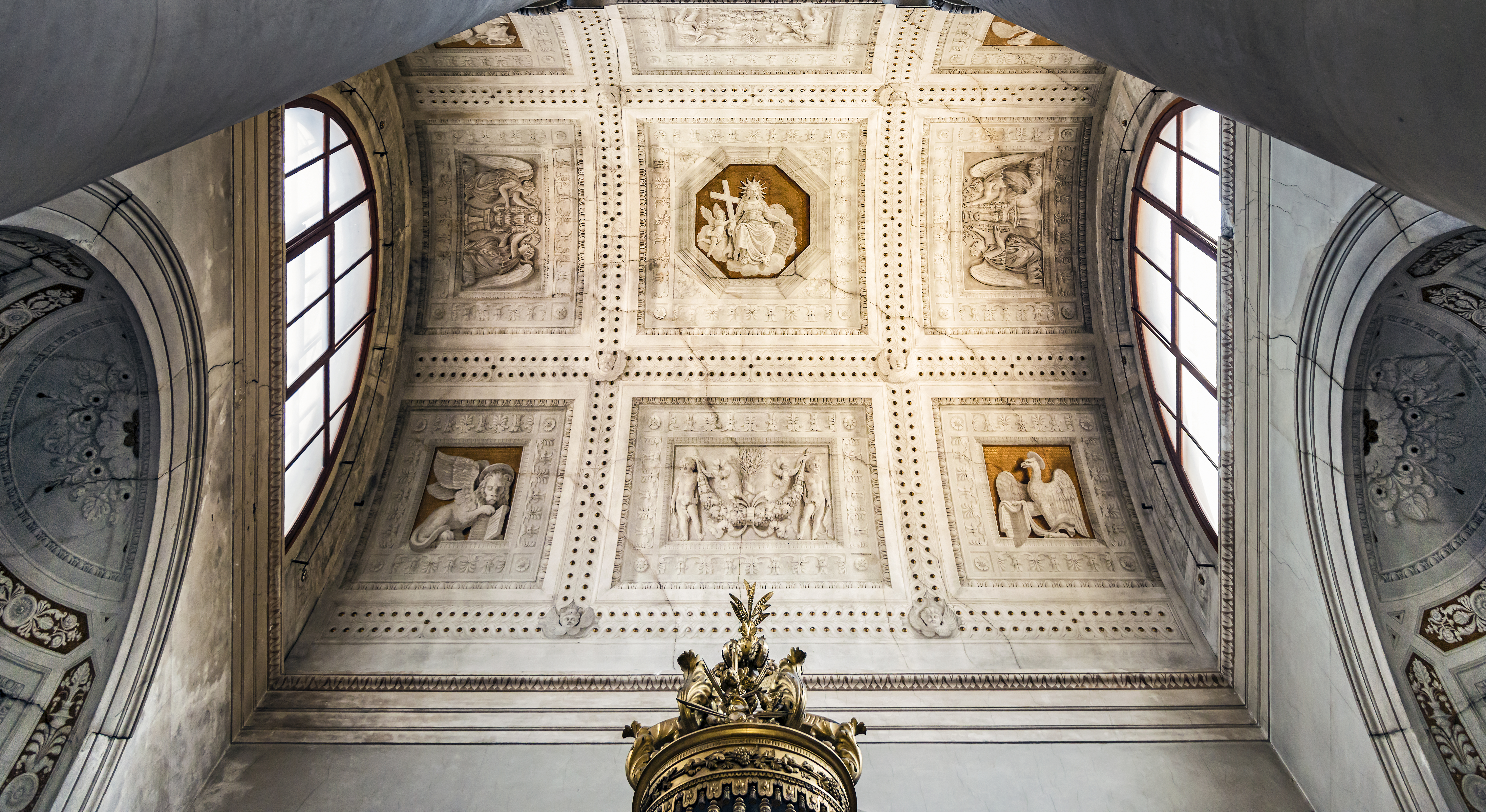 Church of Nome di Gesù in Venice - Ceilling of choir